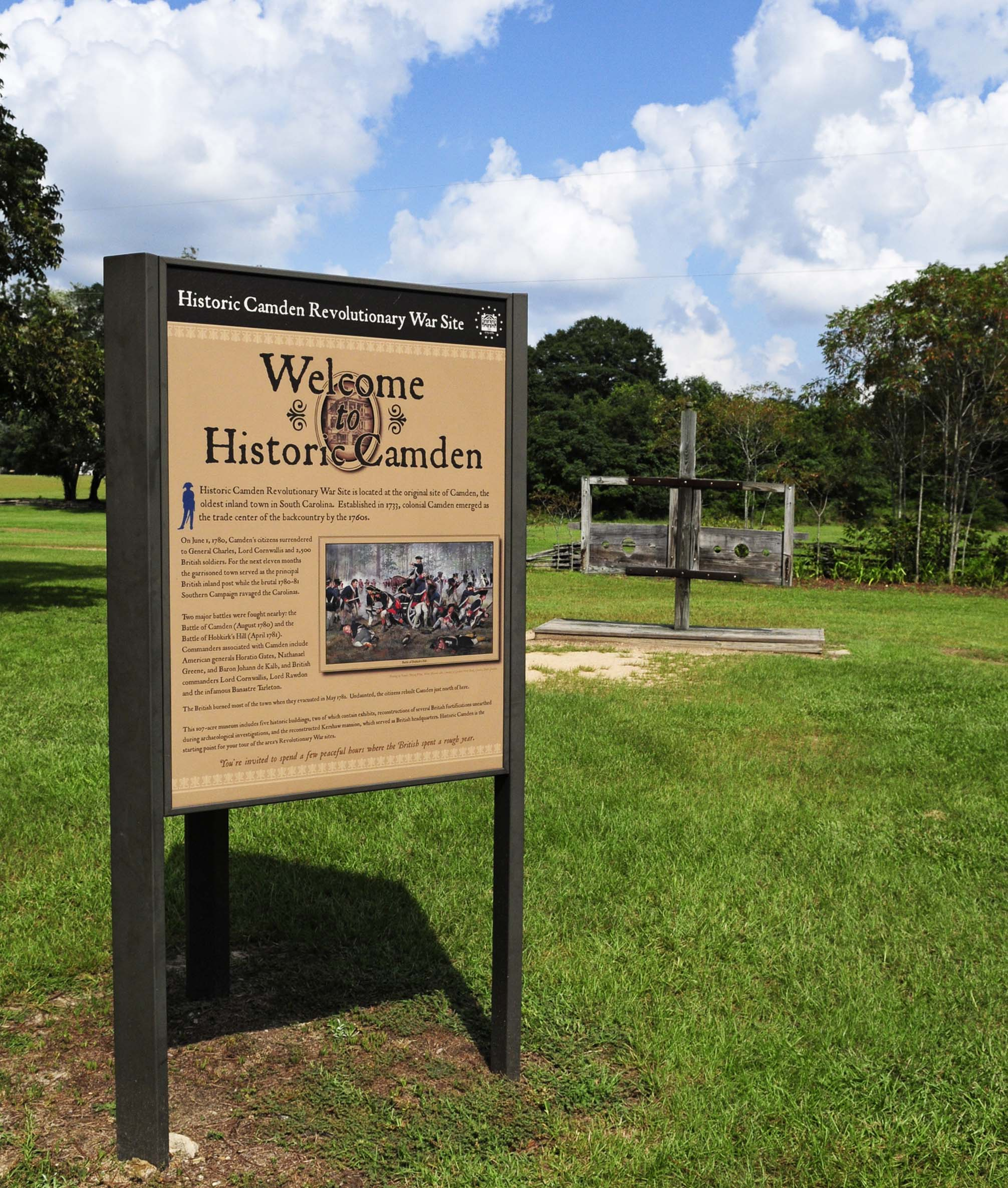 Historic Camden Revolutionary War Restoration